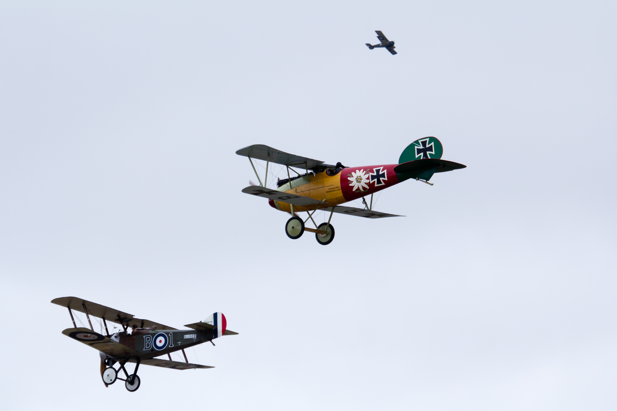 Classic Fighters 2015 - Albatros D.Va ZK-TGY and Sopwith Camel ZK-JMU, Airco DH.5 ZK-JOQ in the background